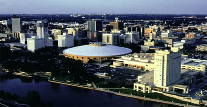 Template:Downtown Wichita on the east bank of the Arkansas river